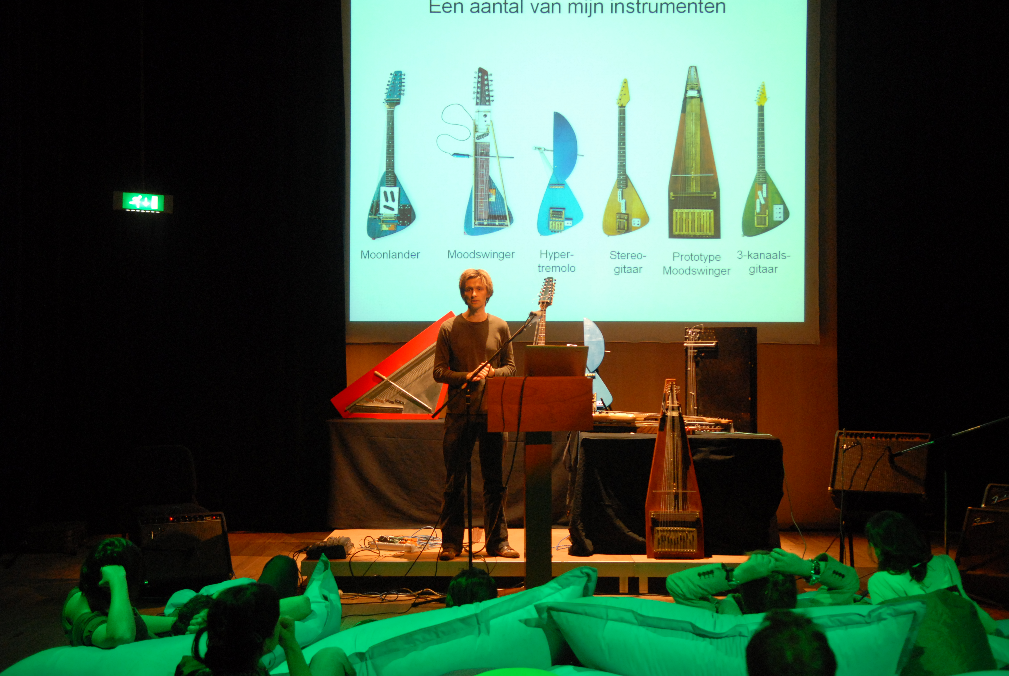 My own work also the pics of the guitar shown on the screen are my own work.